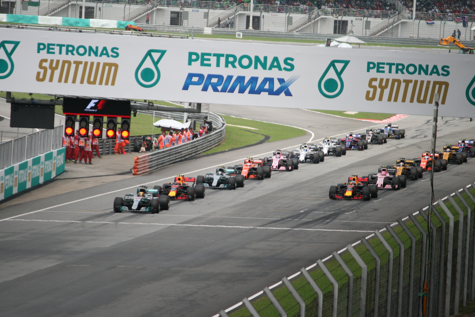 Malaysia GP 2017 Starting Grid